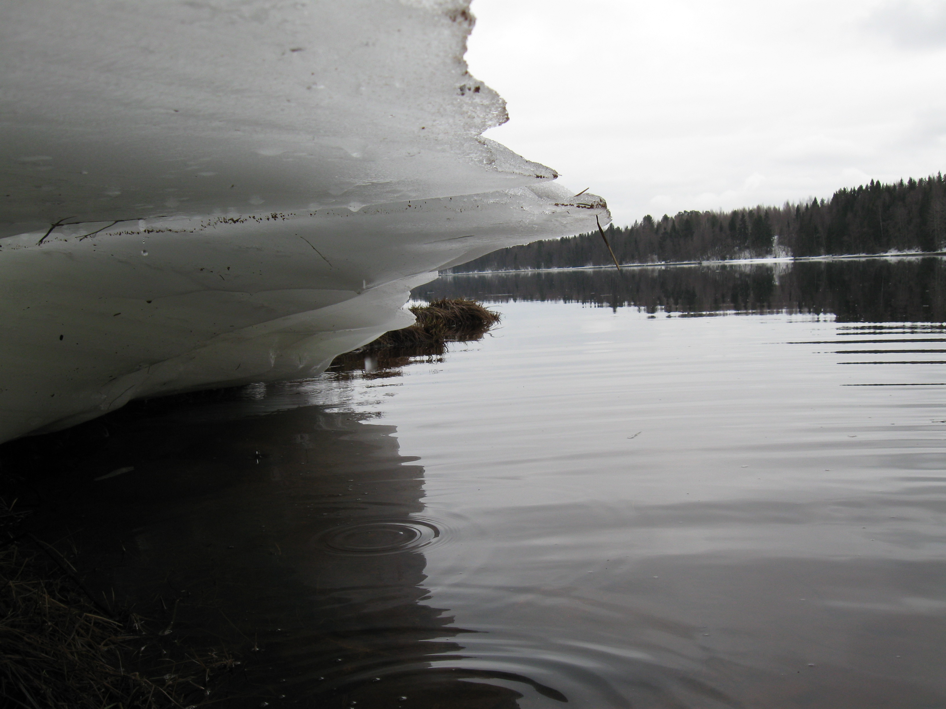 A melting ice block at the shore of Oulujoki river in Finland, in early April.